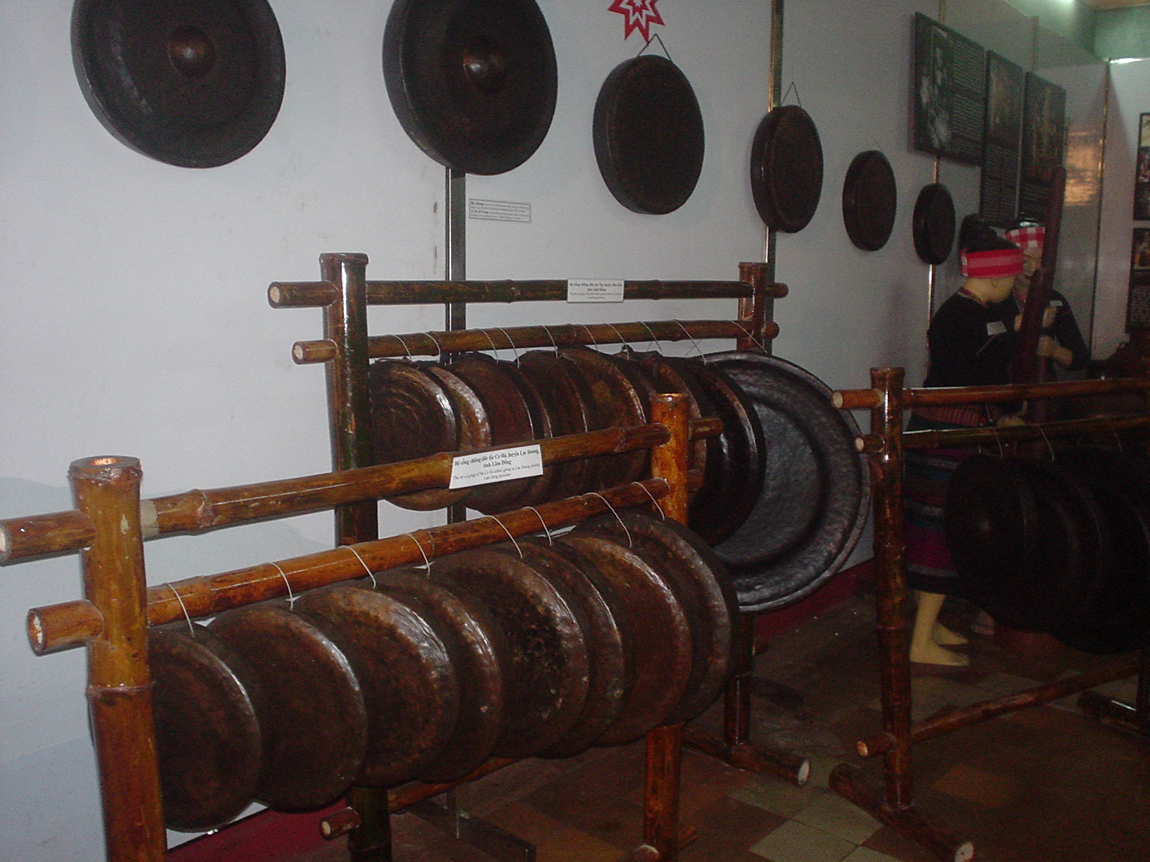 Sets of Tây Nguyên gongs, Vietnam